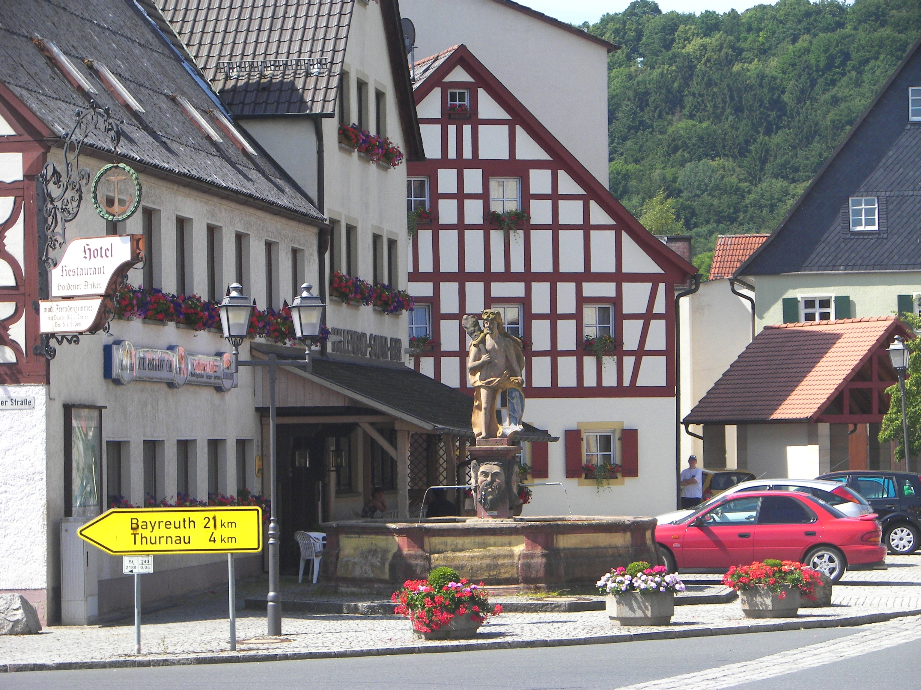 Center of Kasendorf